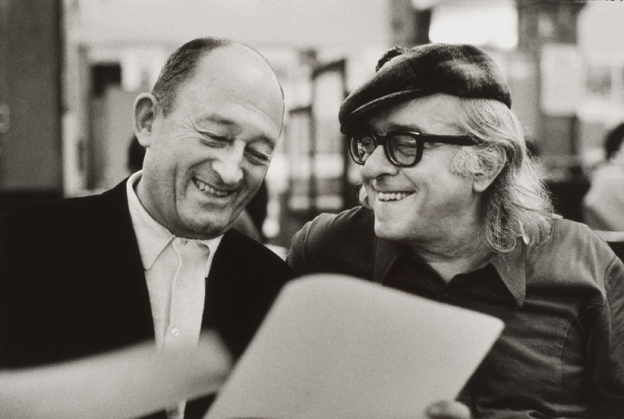 French poet and publisher Pierre Seghers with Brazilian poet Vinícius de Moraes in Paris.